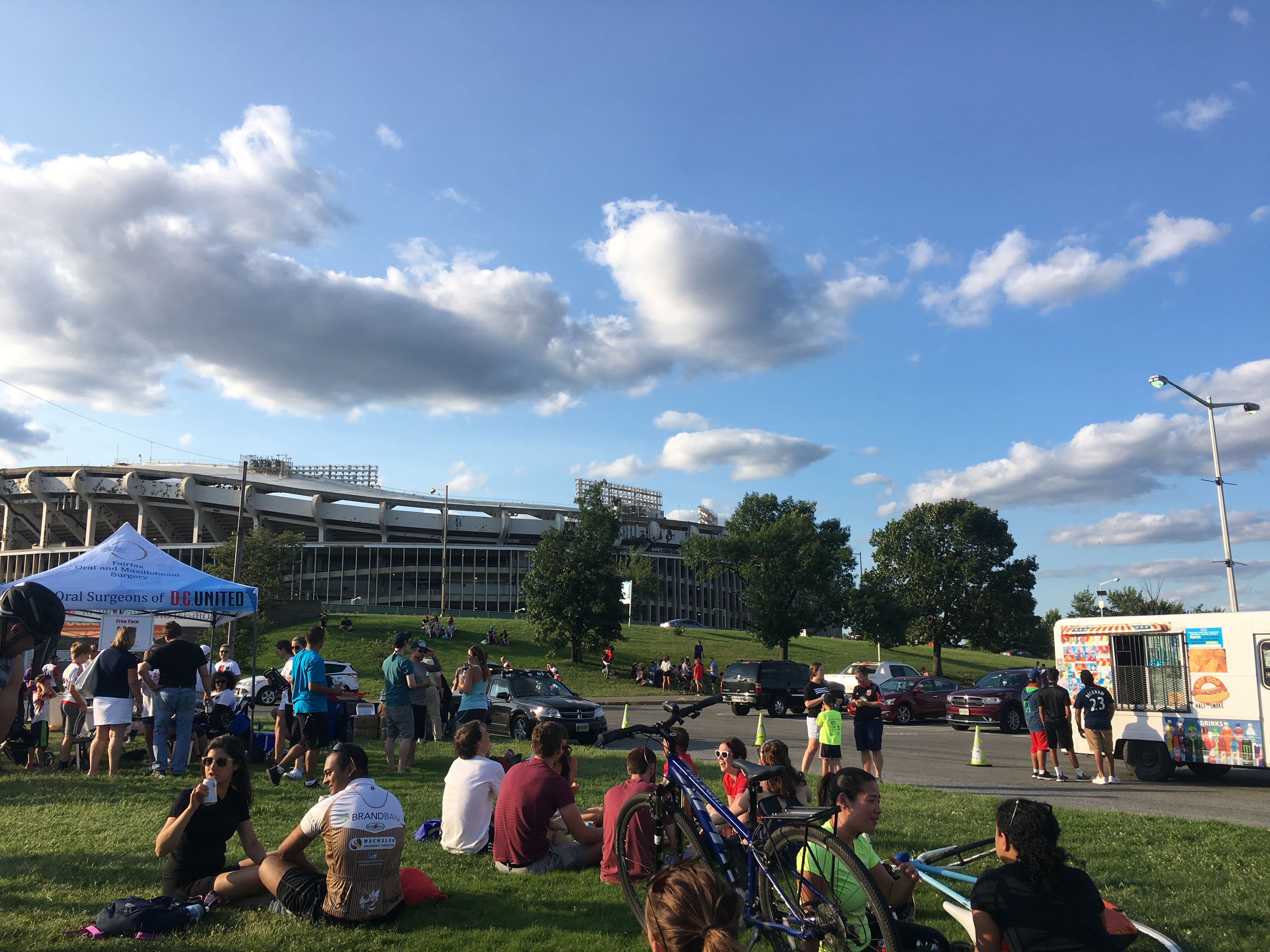 RFK Stadium, Washington, DC, August 4, 2017 from the South side of the stadium